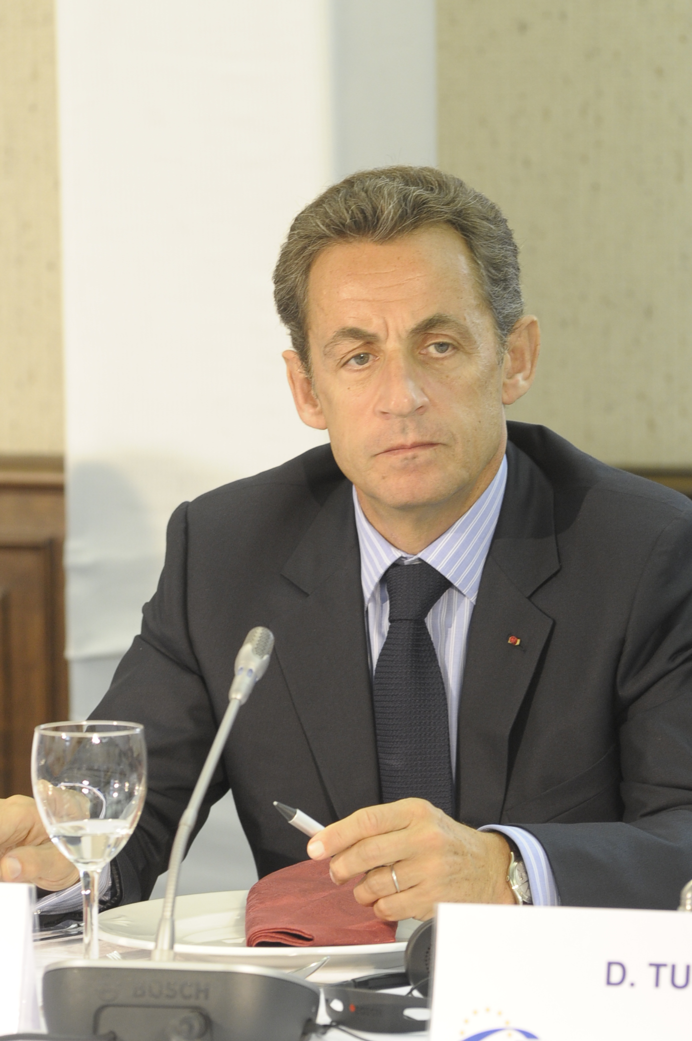 French President Nicolas Sarkozy - EPP Summit